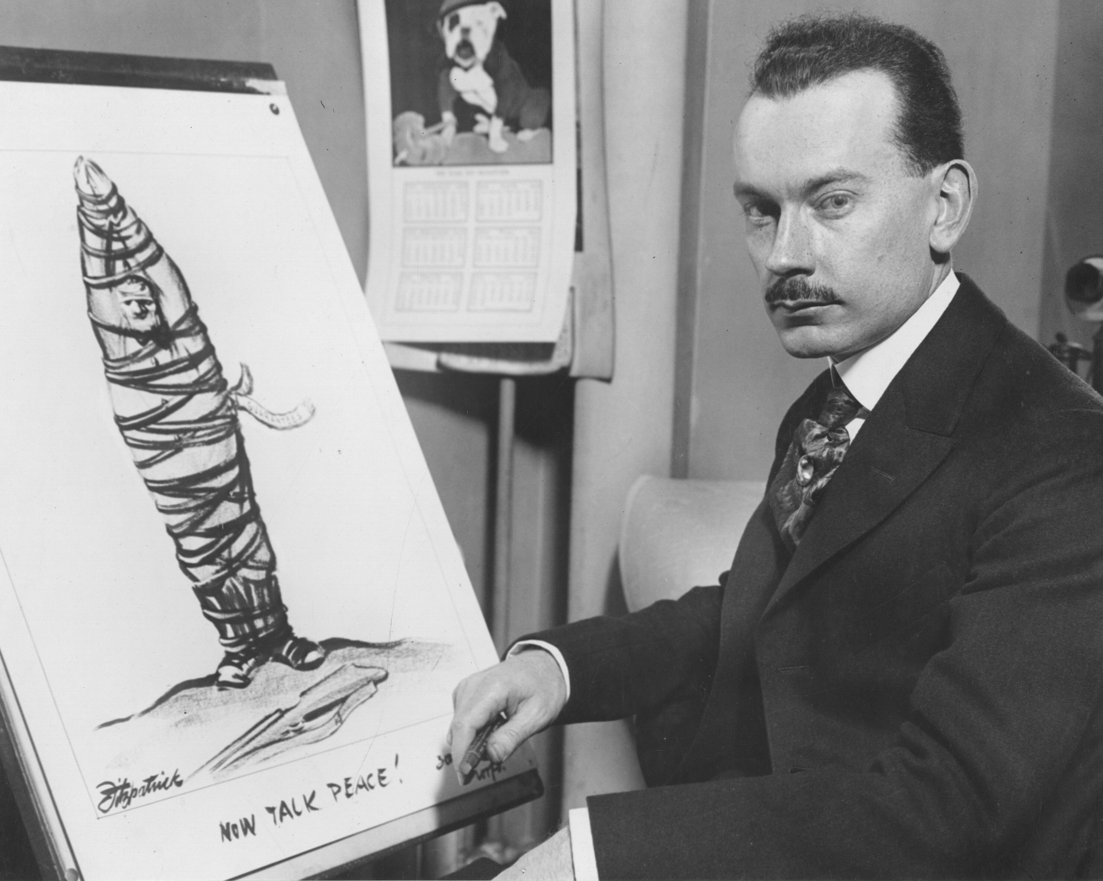 Scope and content: Photographer: St. Louis Post, St. Louis, MO.